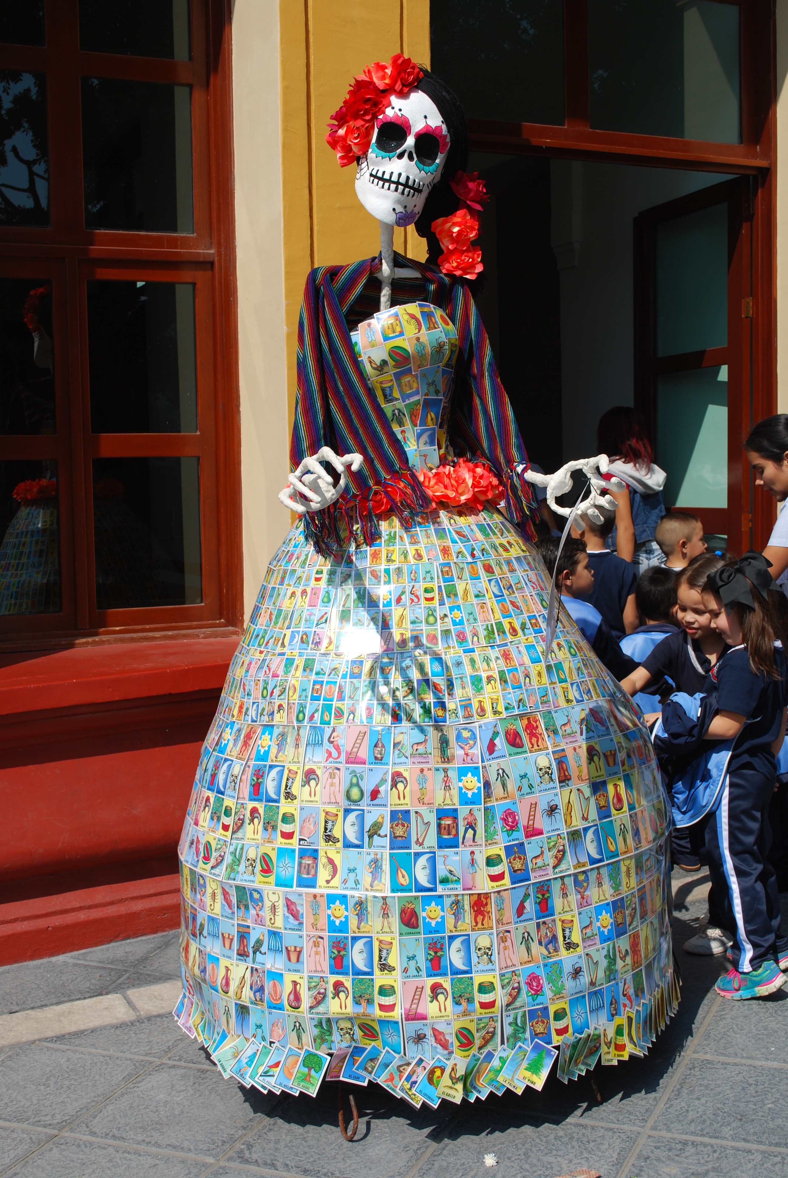 Skeletal figure in Chapala, Jalisco